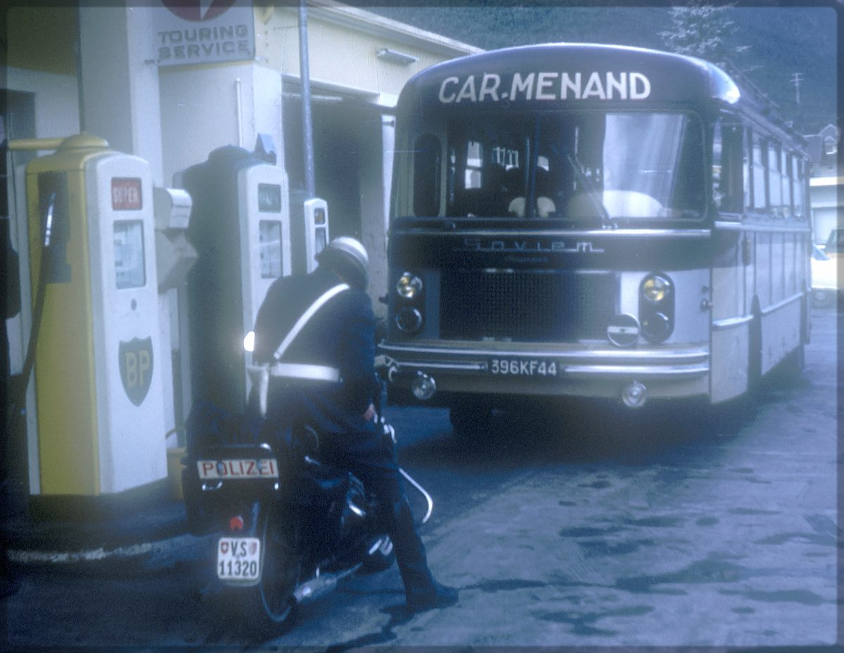 Photography of a Saviem ZR 20 bus, dated from 1965, somewhere in Switzerland on road to Italy.